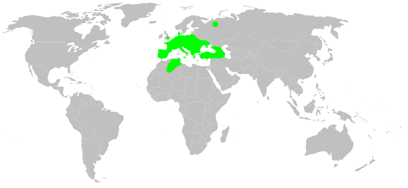 Known world distribution of Nigma walckenaeri (Dictynidae), after data from British Arachnological Society, 2006.